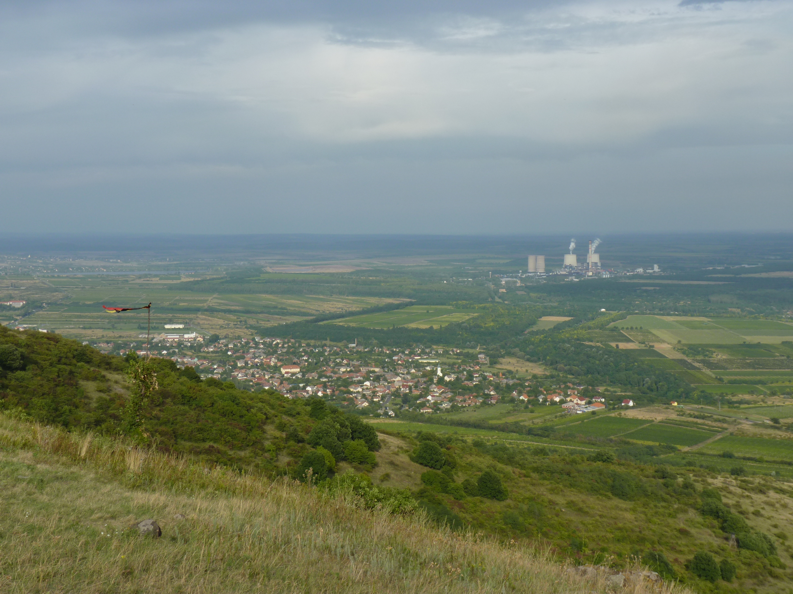 View of Abasár and Mátra Power Plant from Cseplye Hill